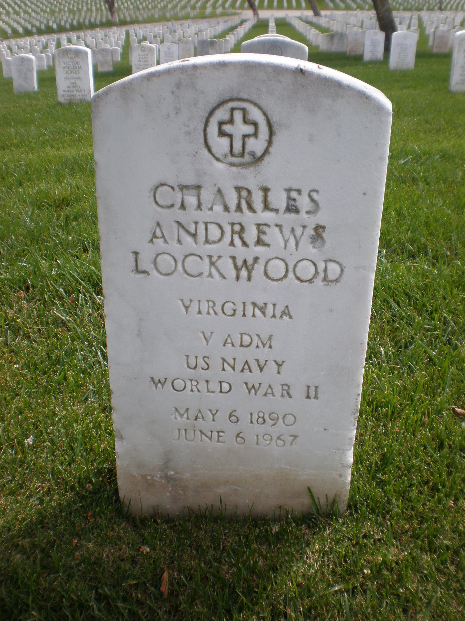 The headstone of Vice Admiral Charles A. Lockwood, located at Golden Gate National Cemetery in San Bruno, California.